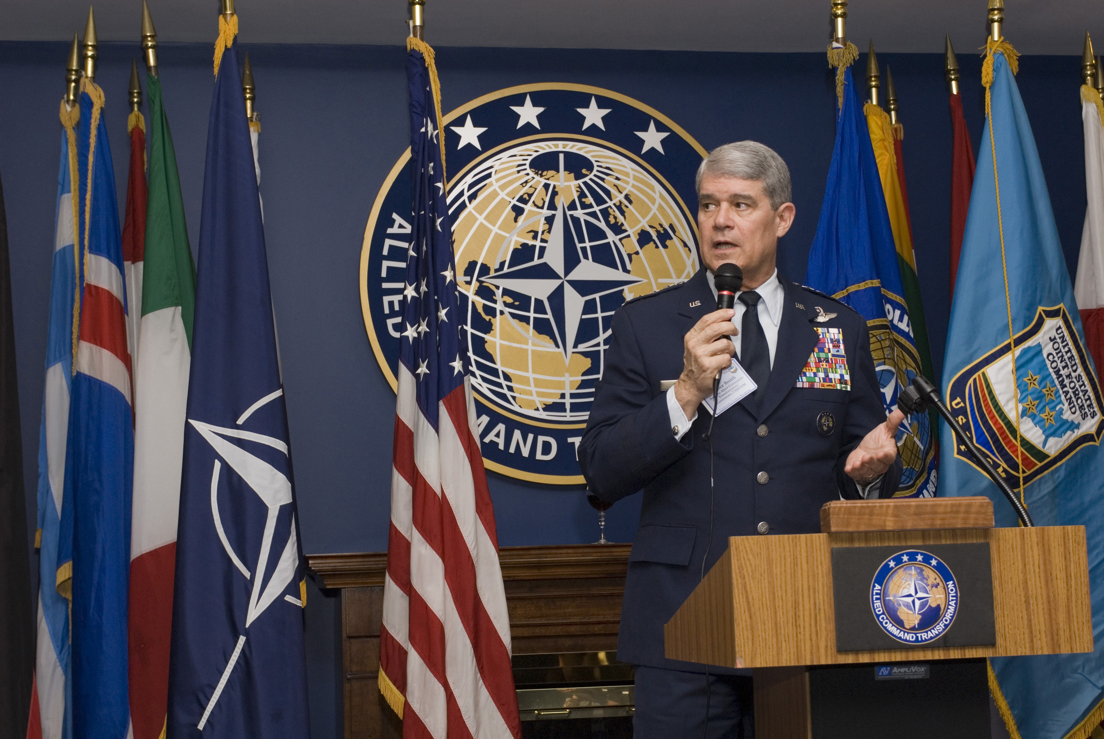 U.S. Air Force Gen. Lance L. Smith, NATO Supreme Allied Commander Transformation and the commander of U.S. Joint Forces Command, speaks during a reception March 29, 2007, in Norfolk, Va., for local Hampton Roads community leaders.